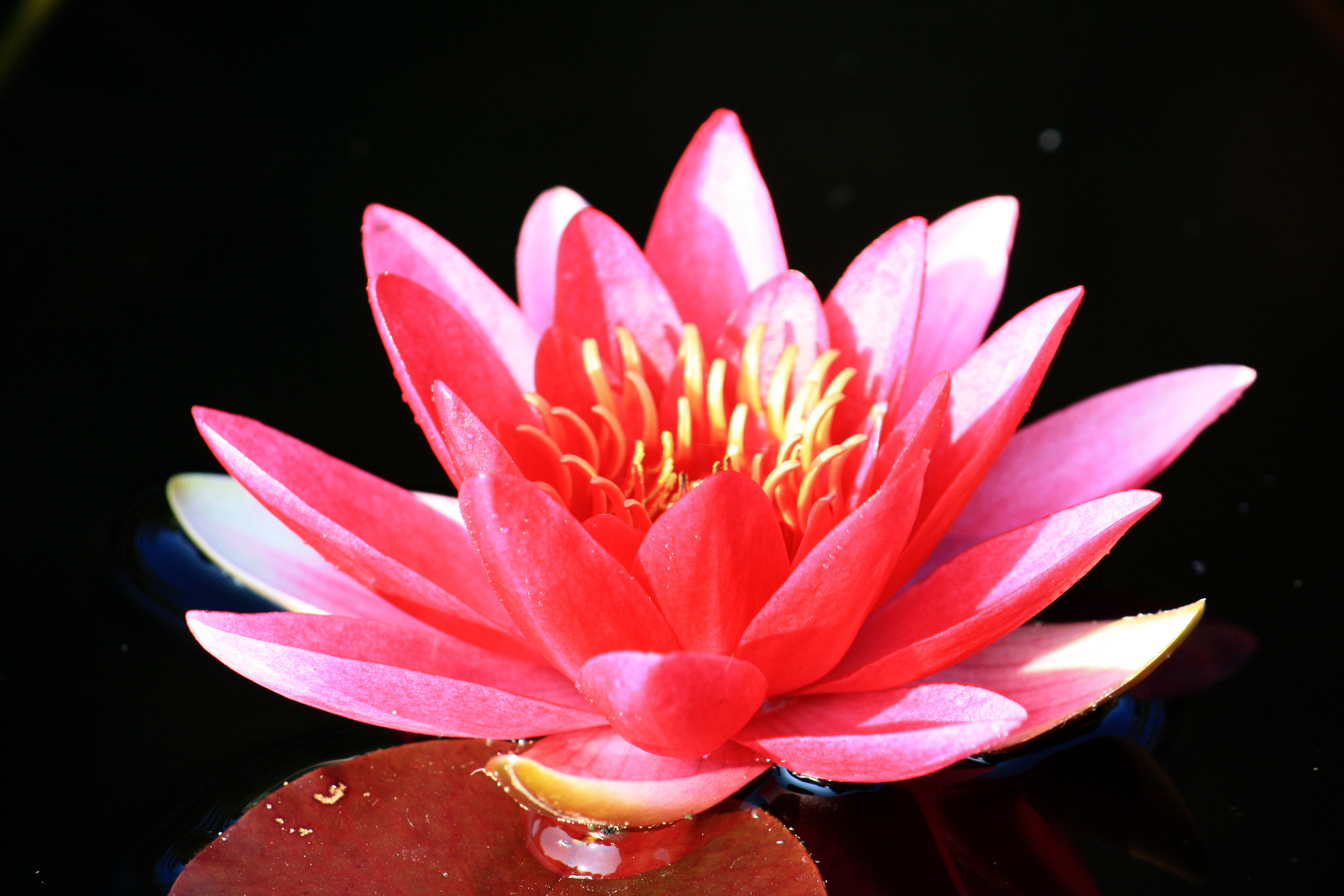 Botanical garden of the University of Zürich in Zürich-Weinegg quarter